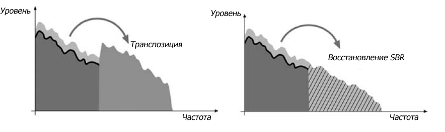 The SBR principle